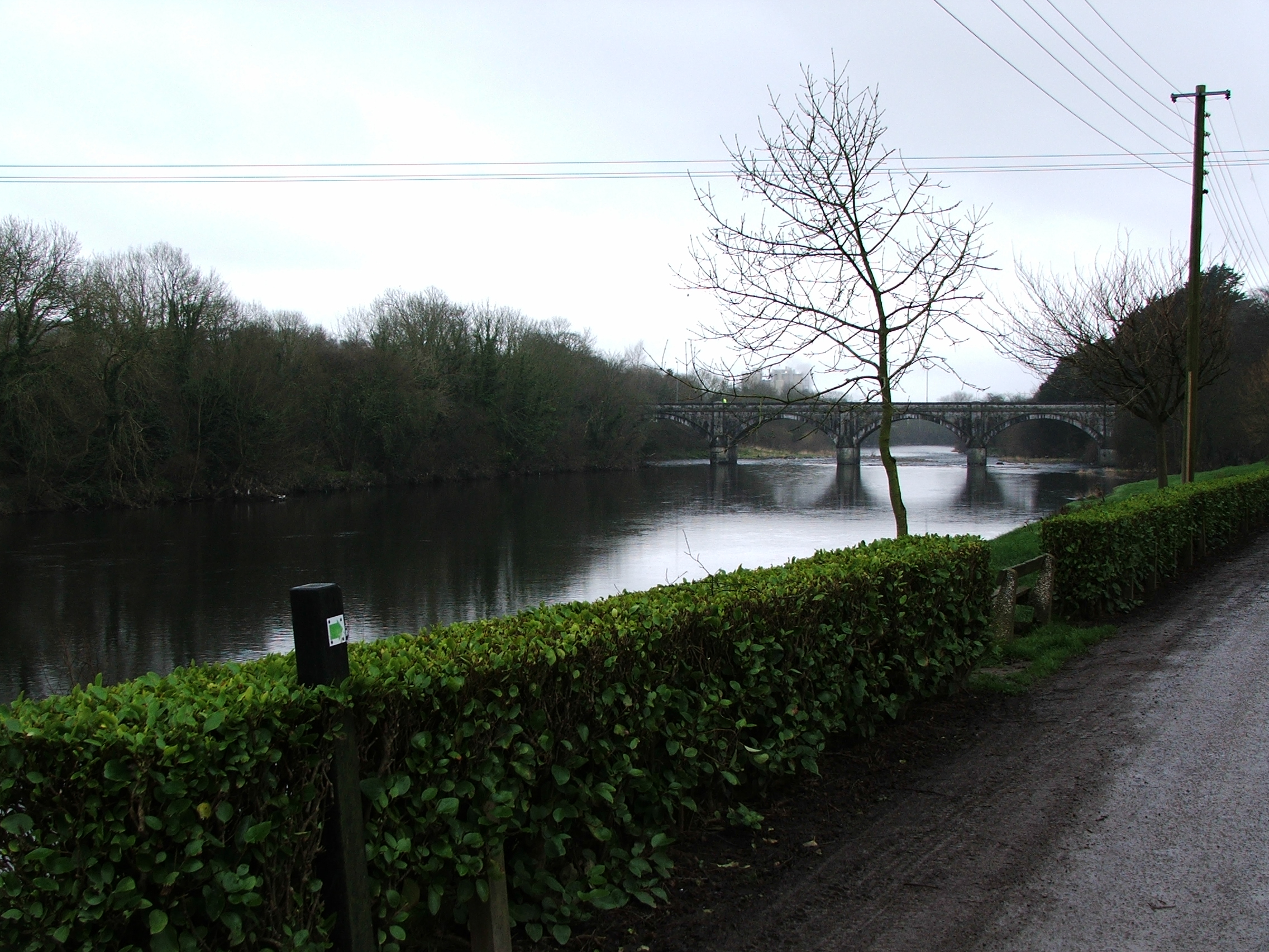 Bridge over River Feale, Listowel, Co, Kerry.